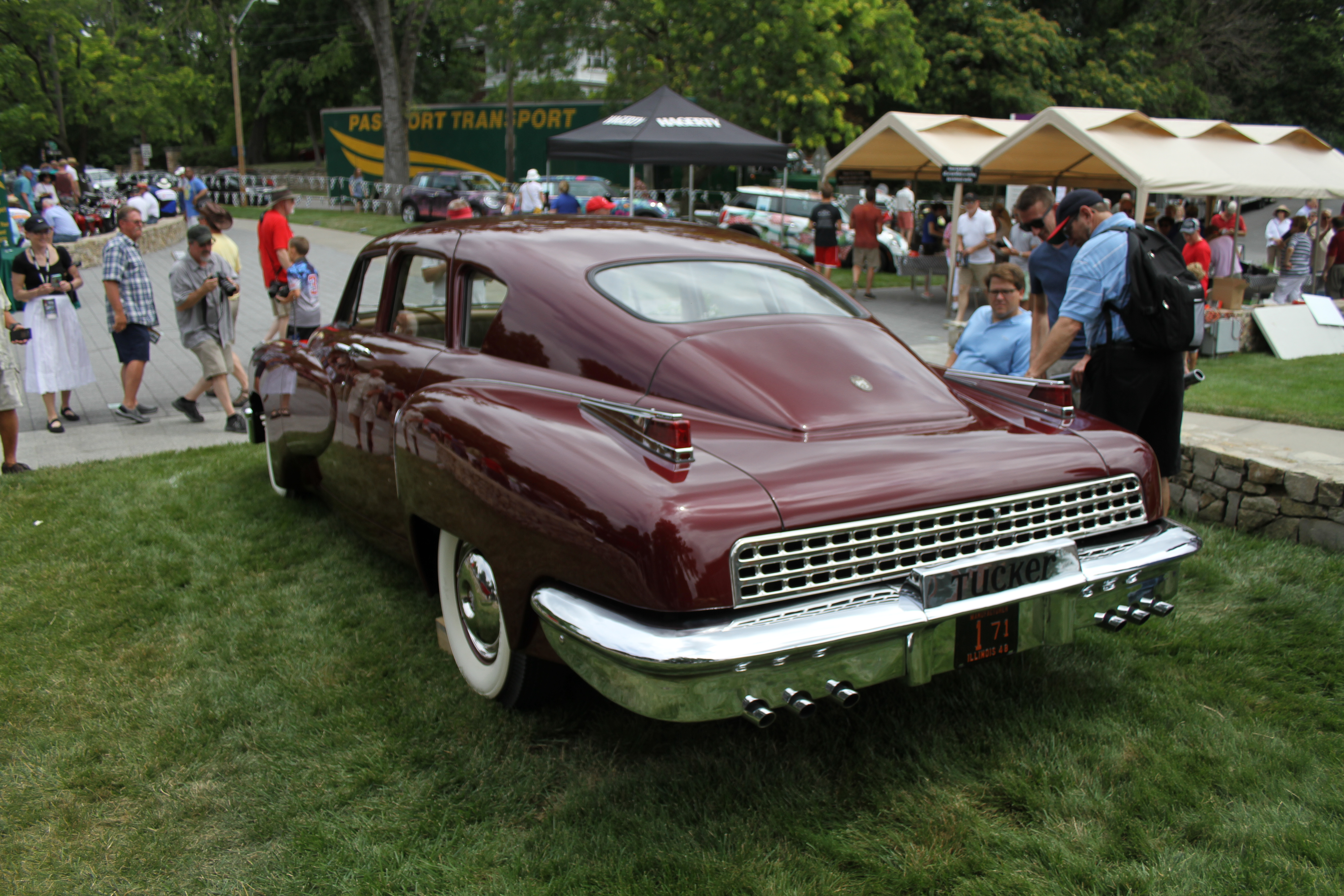 1948 Tucker Torpedo